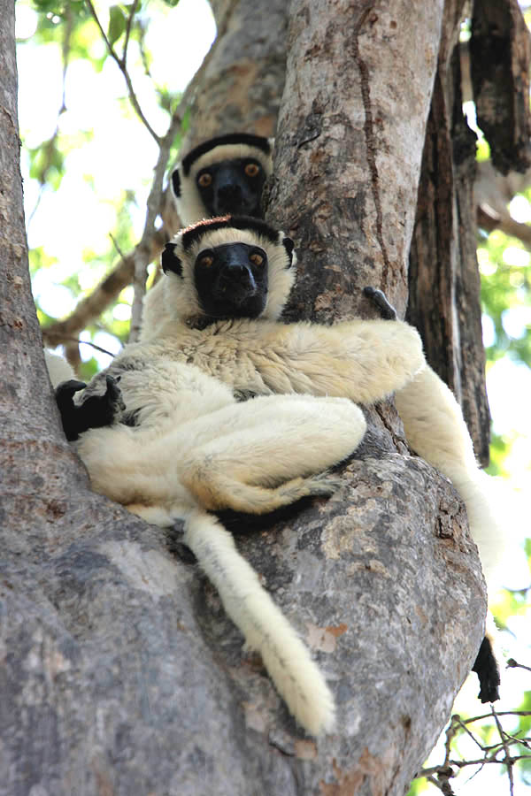 Verreaux's sifakas (Propithecus verreauxi) at the Kirindy Forest Reserve, Madagascar